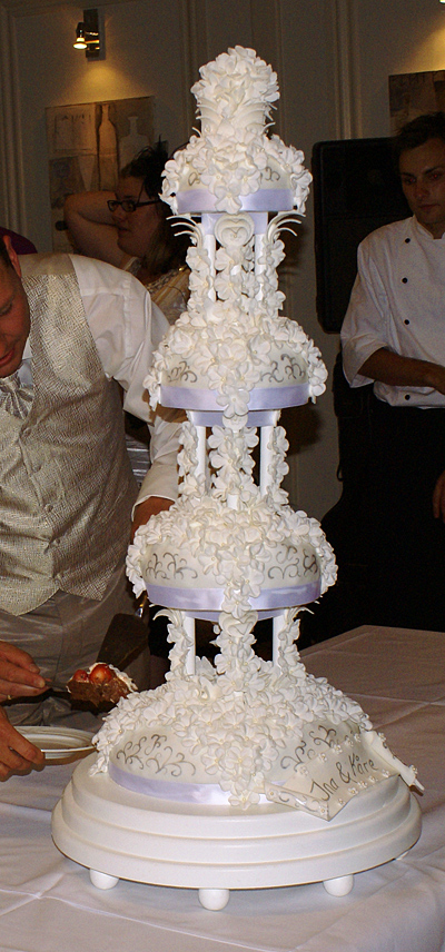 Wedding cake in white